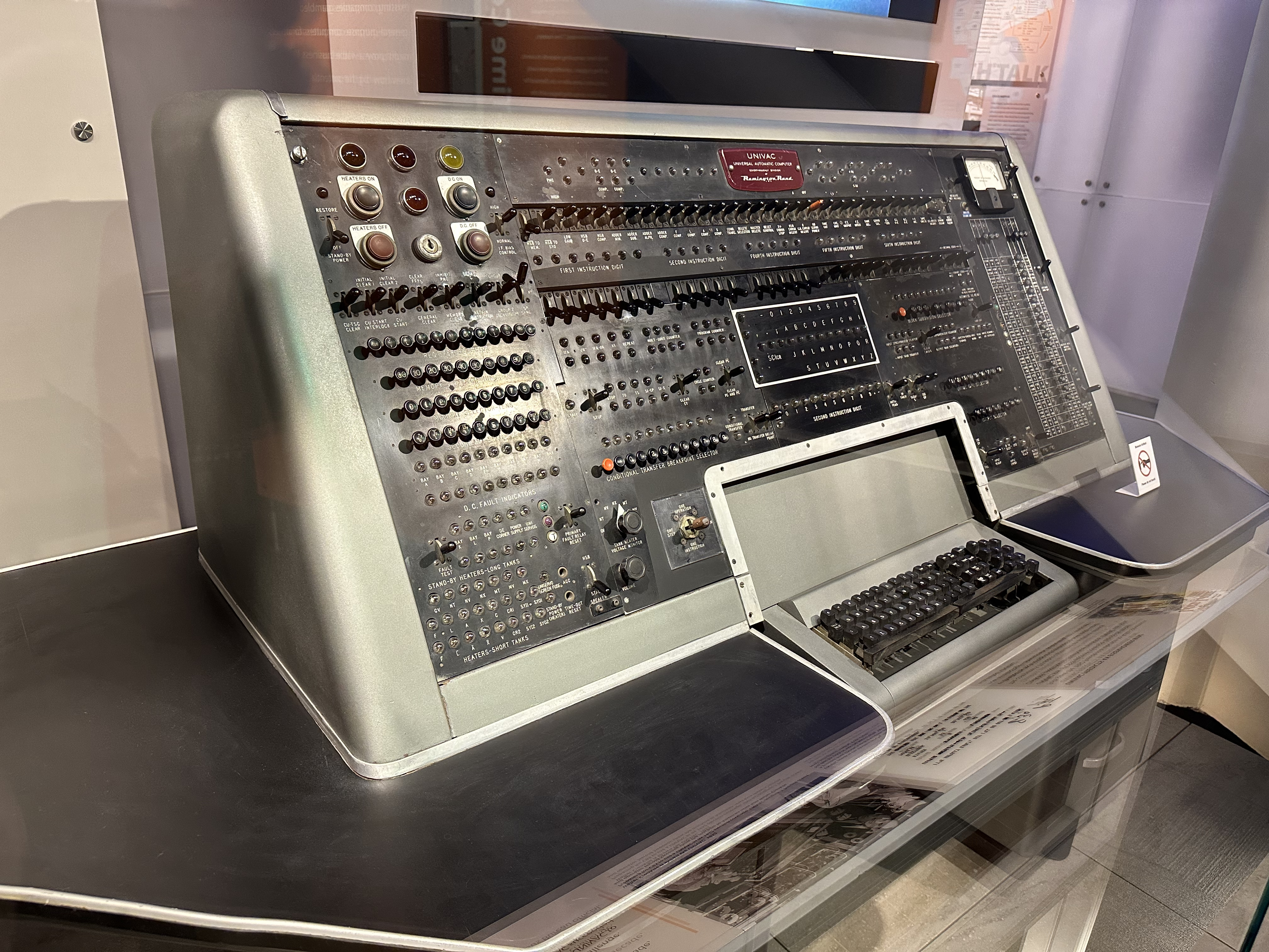 UNIVAC I control station on display at the Computer History Museum.